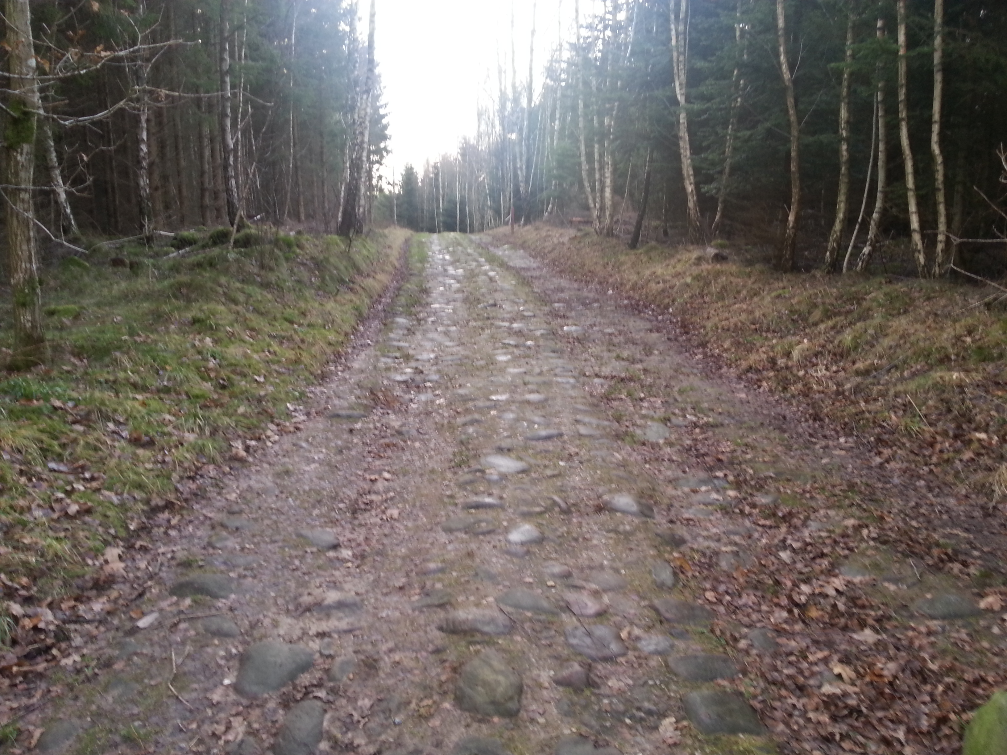 Kongevejen in Nyrup Hegn 1